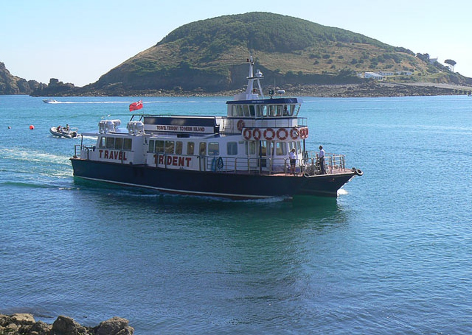 Ferry approaching La Rosière Landing, Herm - Jethou in background